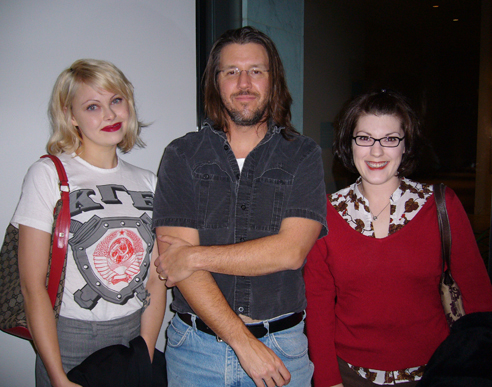 David Foster Wallace at the Hammer Museum in Los Angeles, standing for a photo with fans Claudia Sherman and Amanda Barnes, in January 2006.